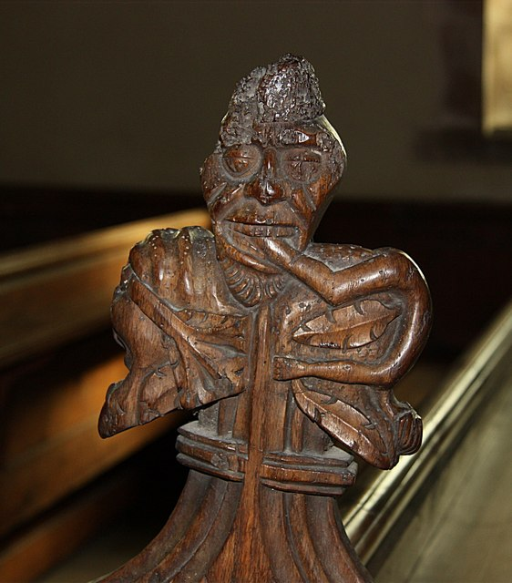 Green Man An unusual foliate man on a 15th century poppyhead bench-end in St.Helen's church